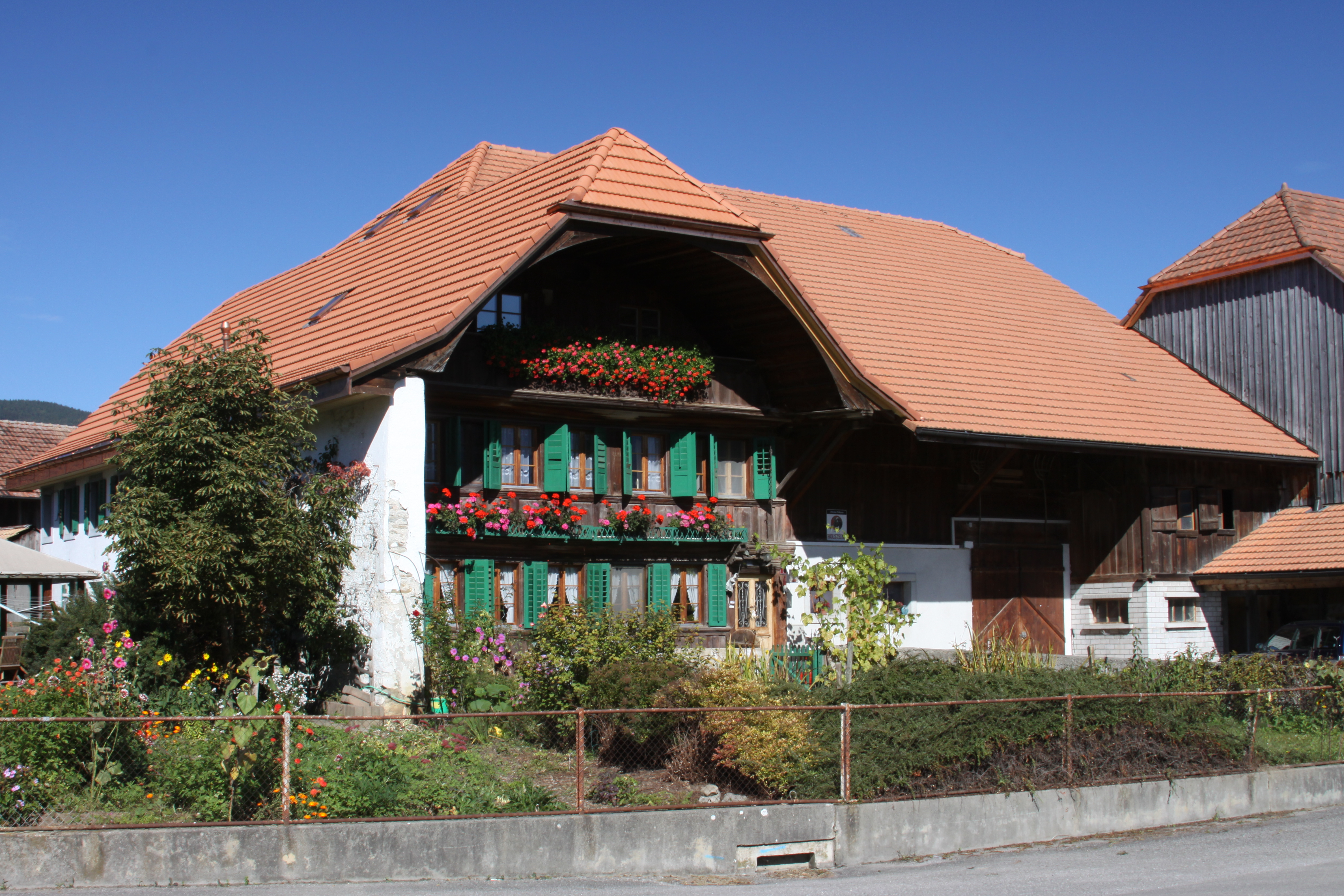 Farmhouse Philiponna, Place Saint-Sulpice 6, Vuippens-Marsens